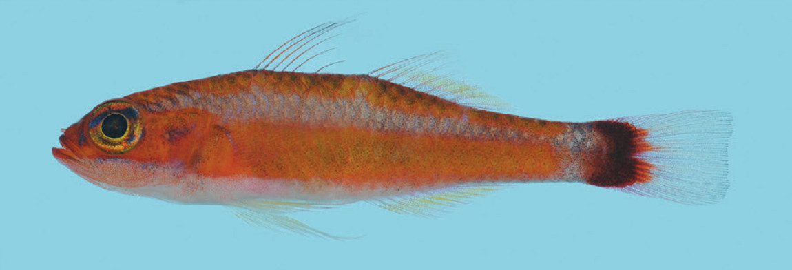 Trimma caudomaculatum female 21.5 mm, Rabaul